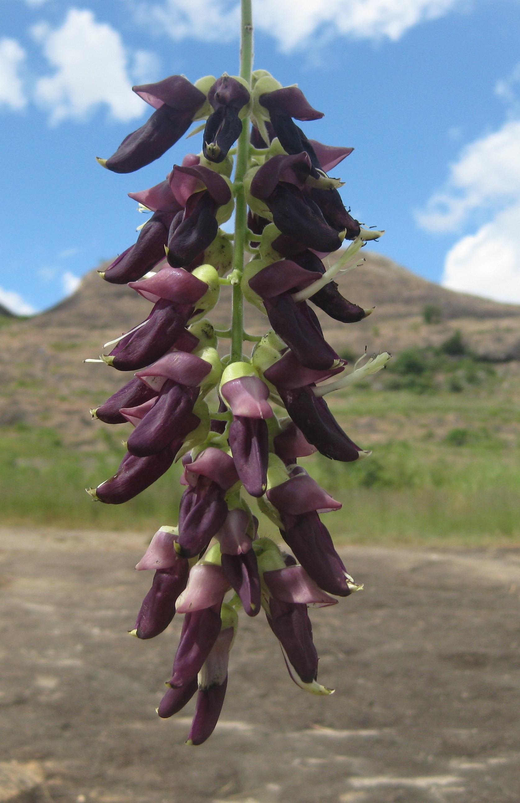 Flowers of Mucuna pruriens, a wild bean with horribly itchy hairs on the plant. In Mozambique it is called "Feijão Maluco" (="crazy bean") or "feijão macaco" ("monkey bean"). Here in front of "Cabeça do Velho", Manica province of Mozambique. In times of hunger, the beans are sometimes prepared as a substitute for beans.